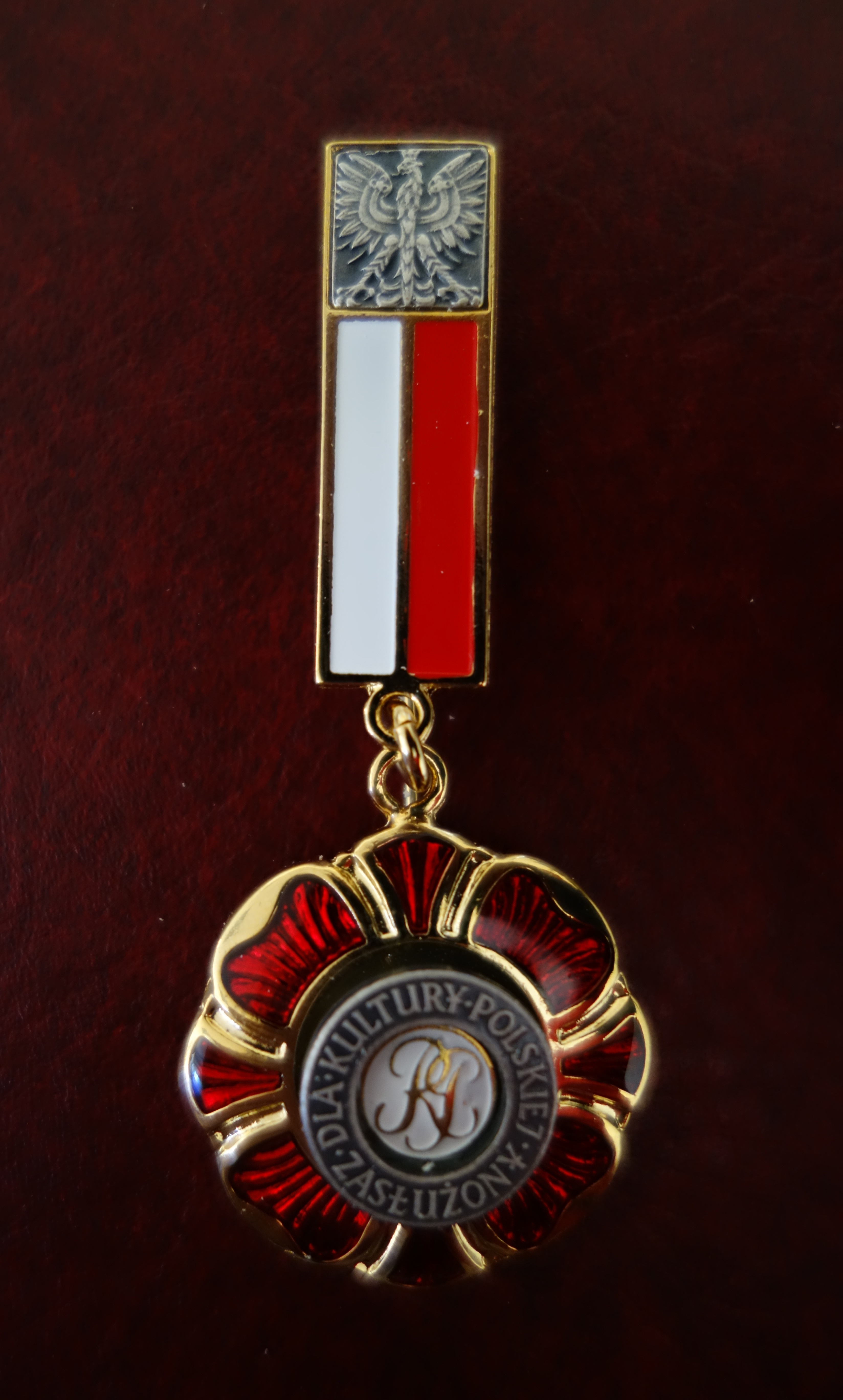 Merite to Polish Culture